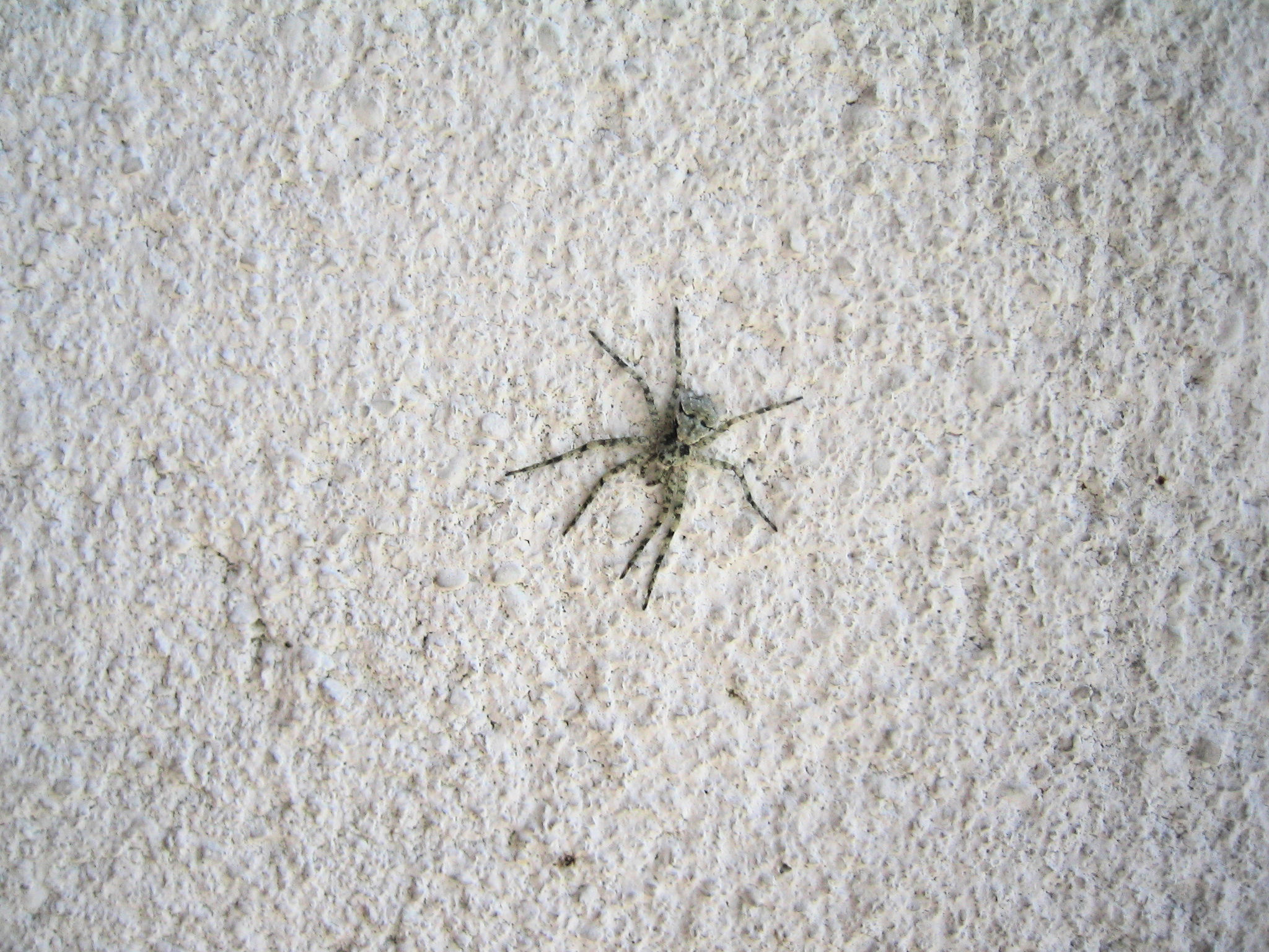 Philodromus margaritatus